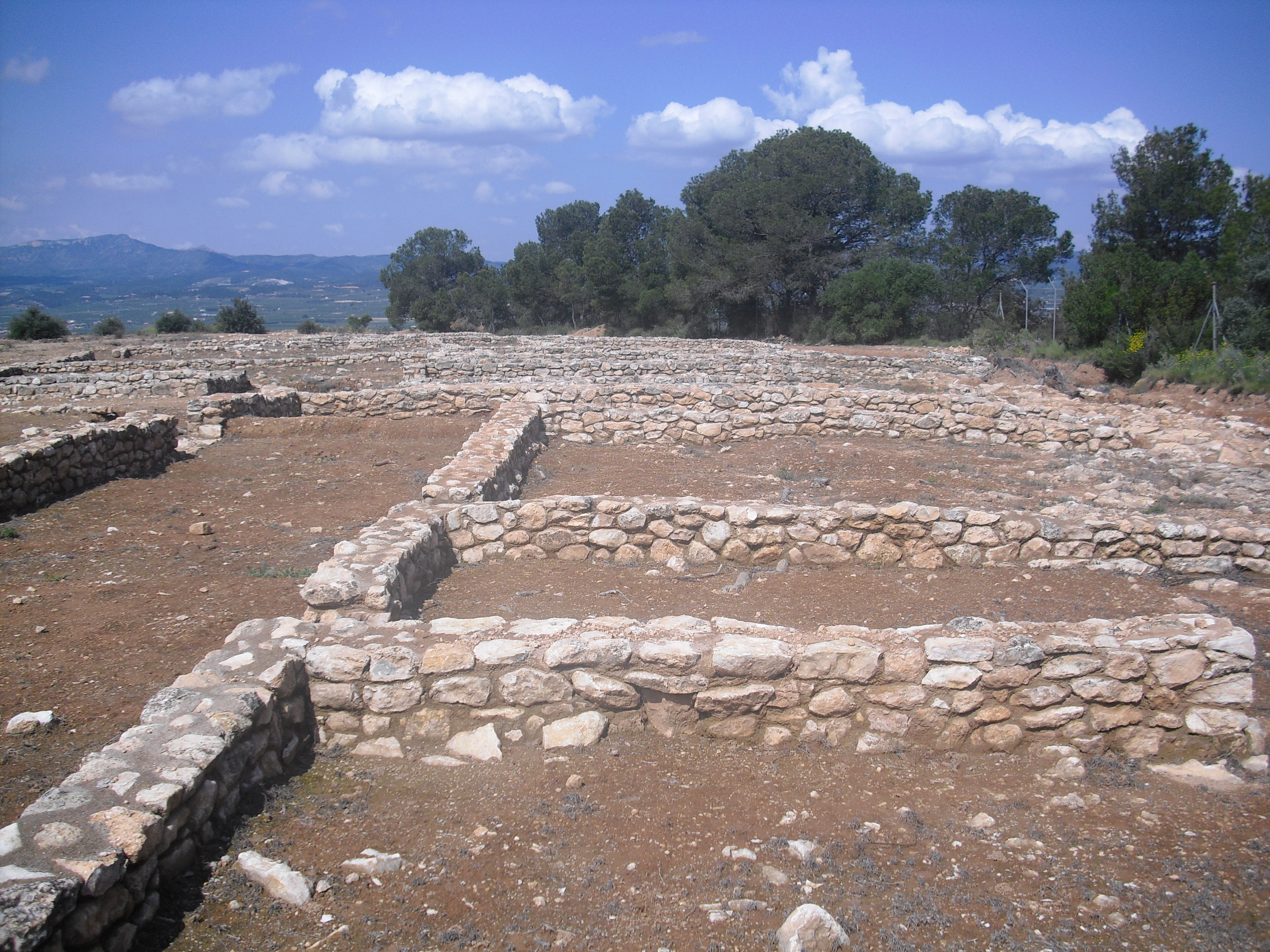 Iberian village of the Castellet de Banyoles (Tivissa, Catalonia, Spain)